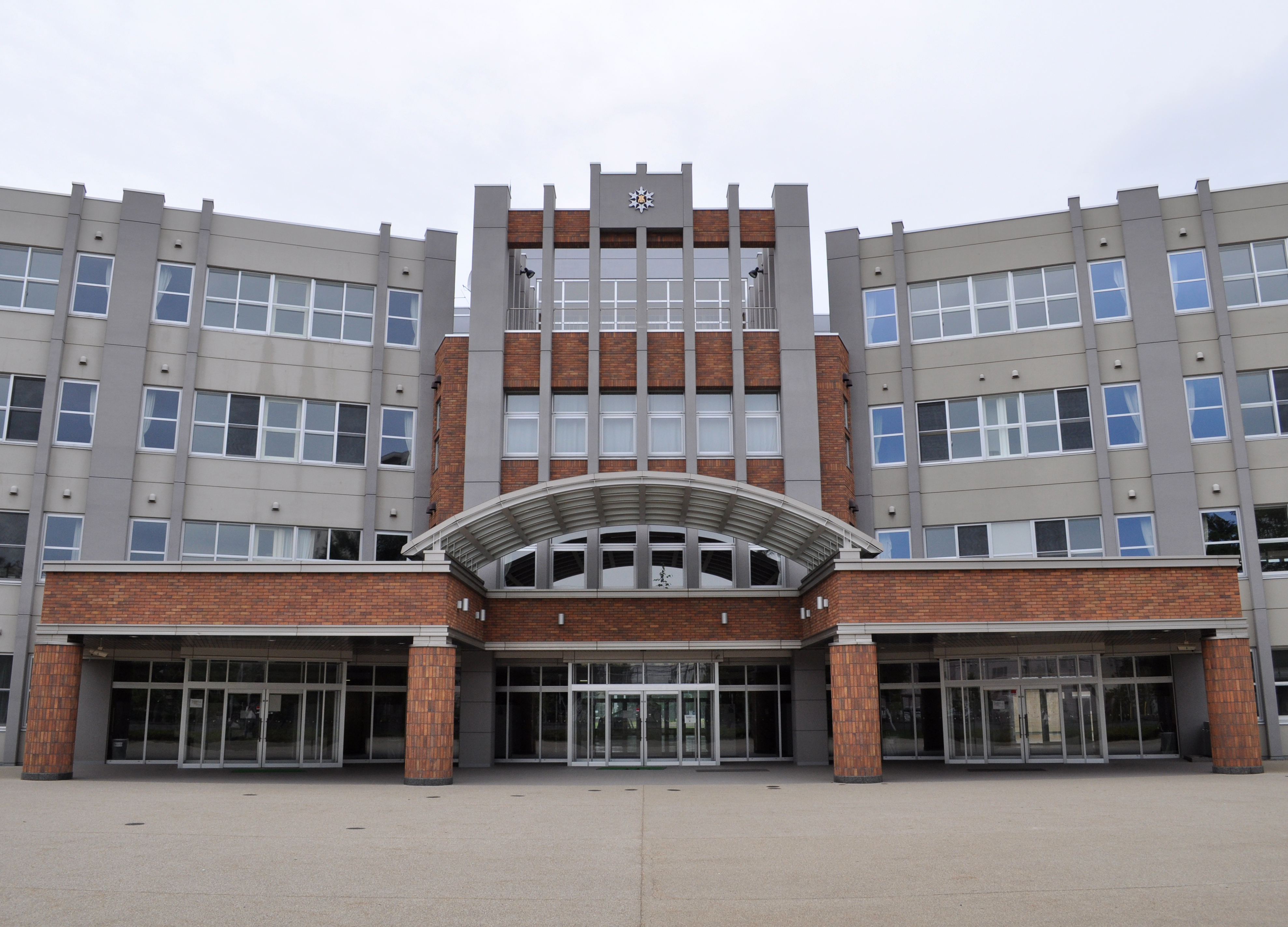 Front view of Hokkaido Sapporo Kita High School in Kita-ku, Sapporo, Hokkaido, Japan.